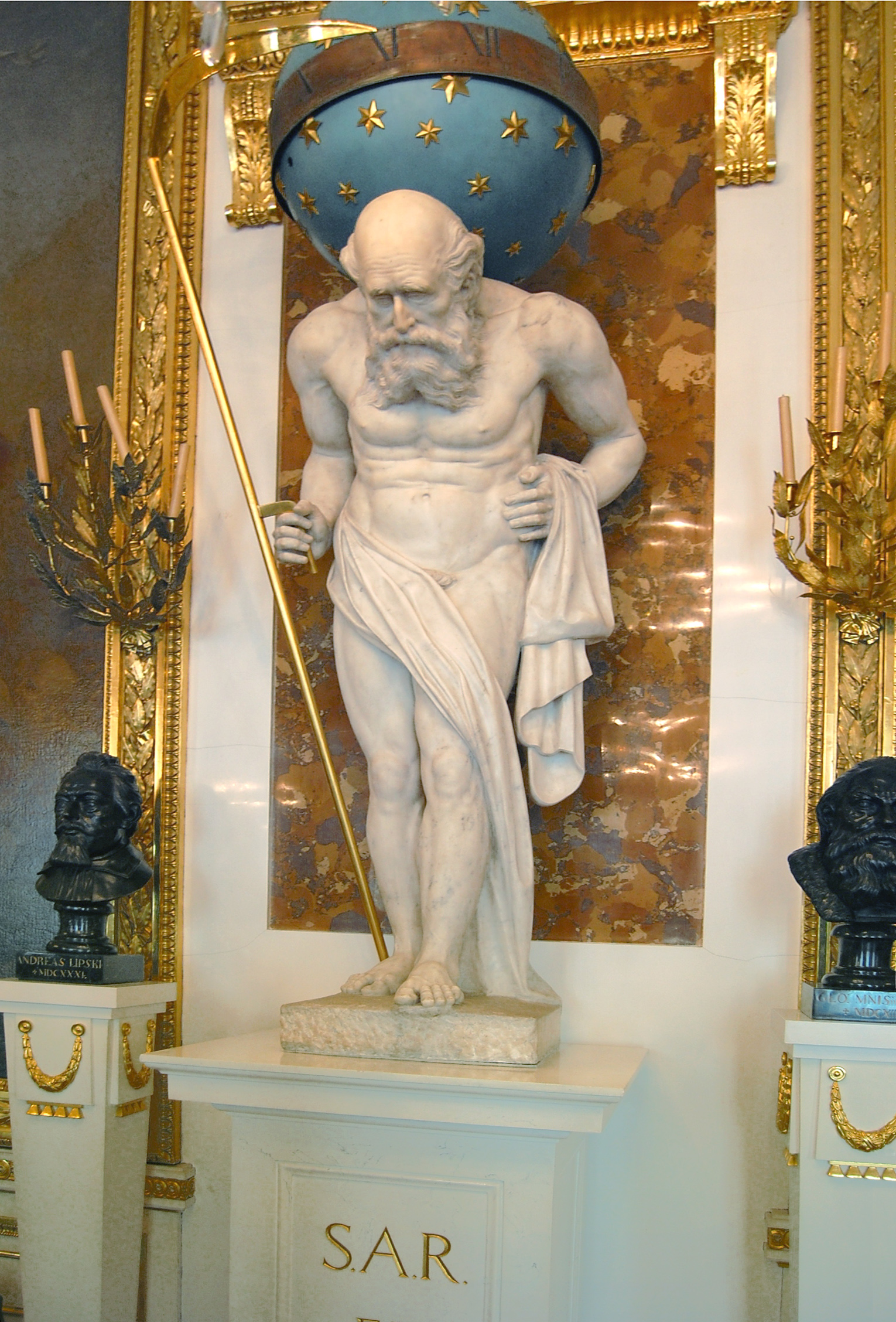 Marble statue of Chronos in the Knight's Hall (Warsaw Royal Castle).